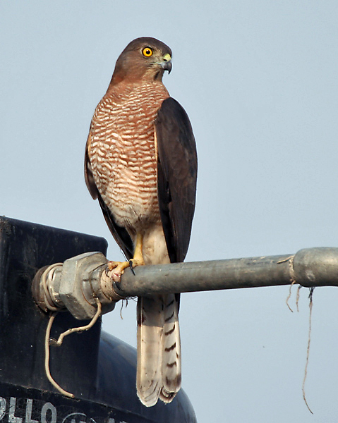 Shikra Accipiter badius at Hodal, in Faridabad, District of Haryana, India.